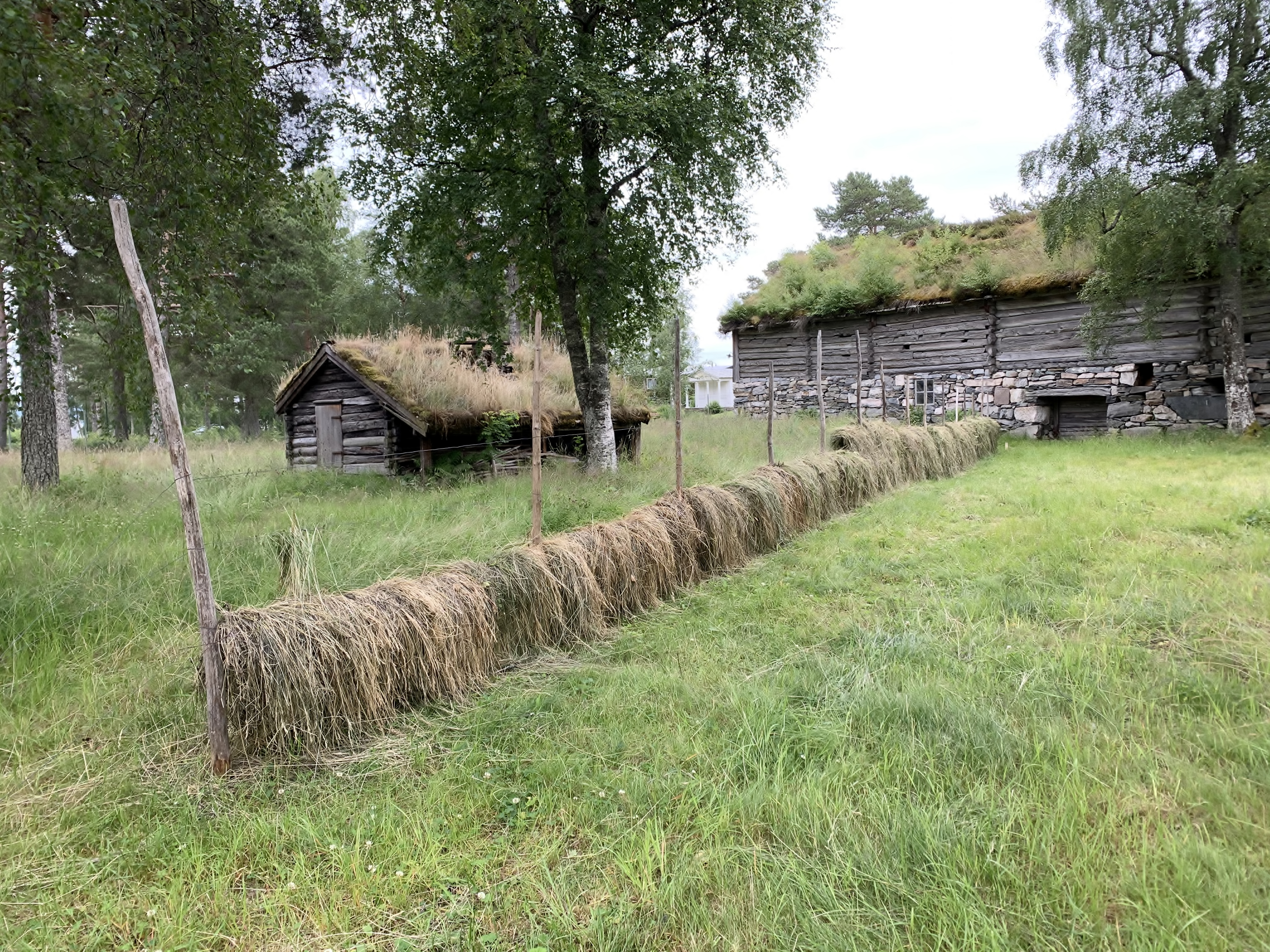 Hayreack at Romsdalsmuseet